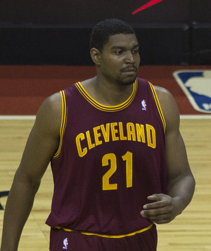 Andrew Bynum